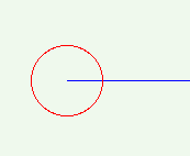 Graphic of 360 degrees angle, by Toobaz (